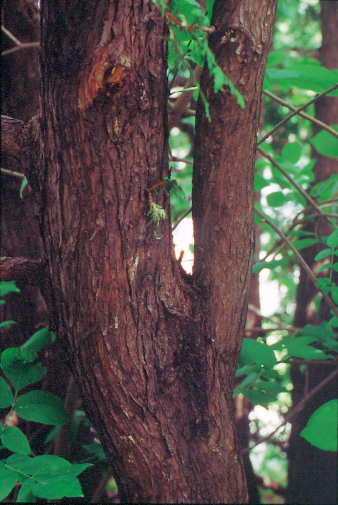 Arborvitae. Trunk.